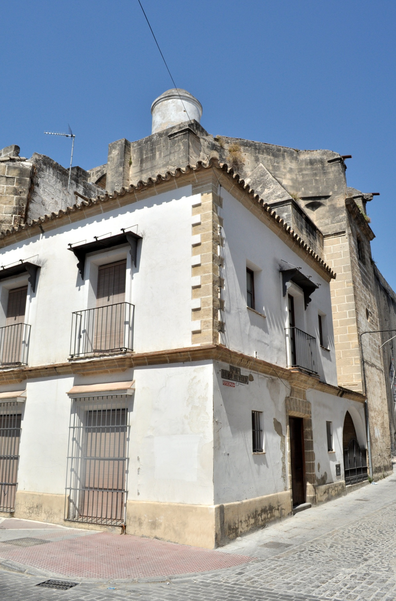 House in Merced St. Jerez